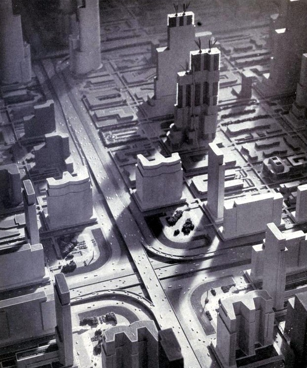 Detail from the Futurama exhibit at the 1939/40 New York World's Fair